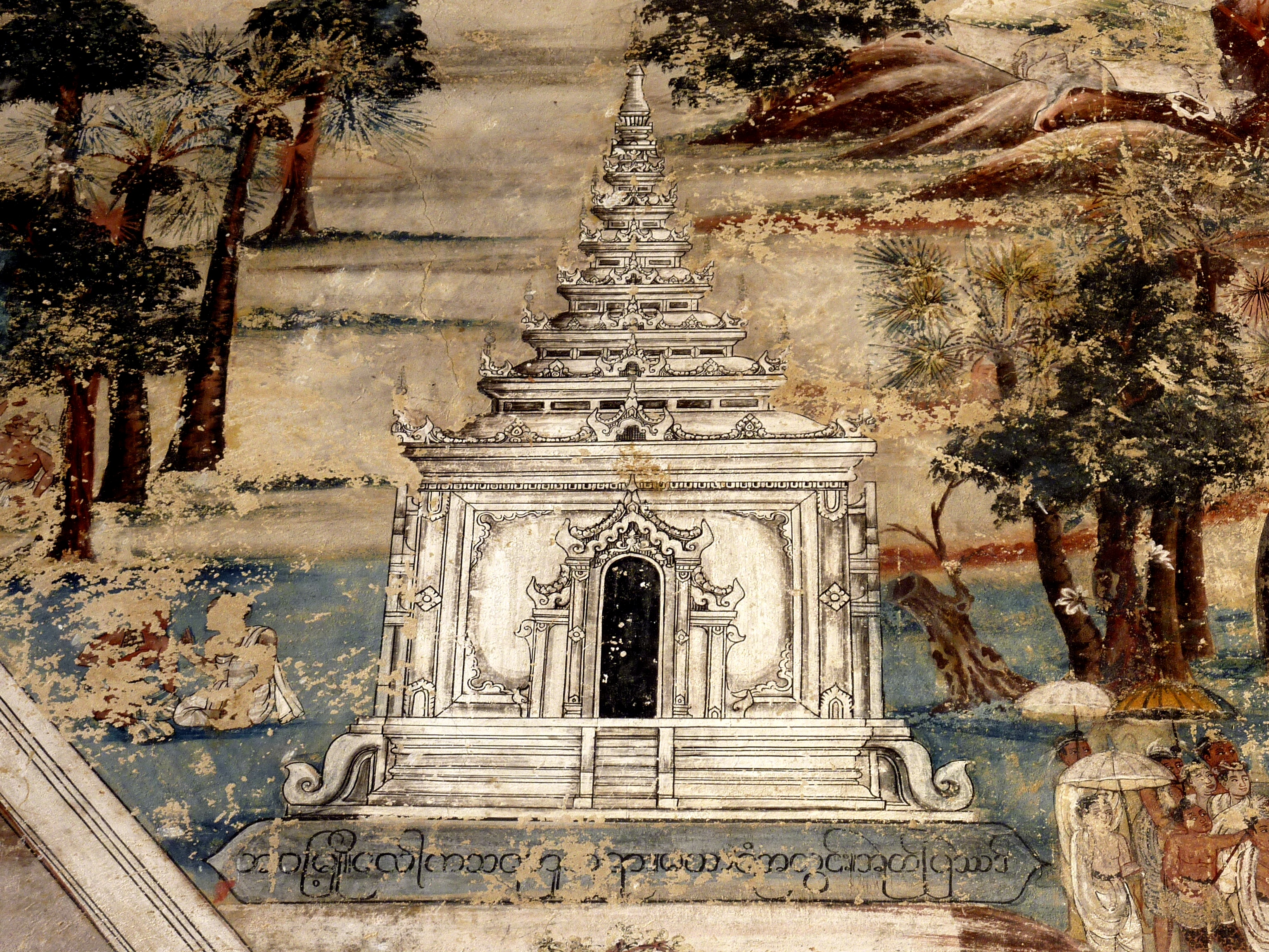 Temple Scene, Kyauktawgyi, Amarapura